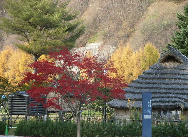 Sapporo Ainu Culture Promotion Center: Sapporo Pirka Kotan - Koganeyu, Minami ward, Sapporo, Hokkaidō prefecture, Japan.